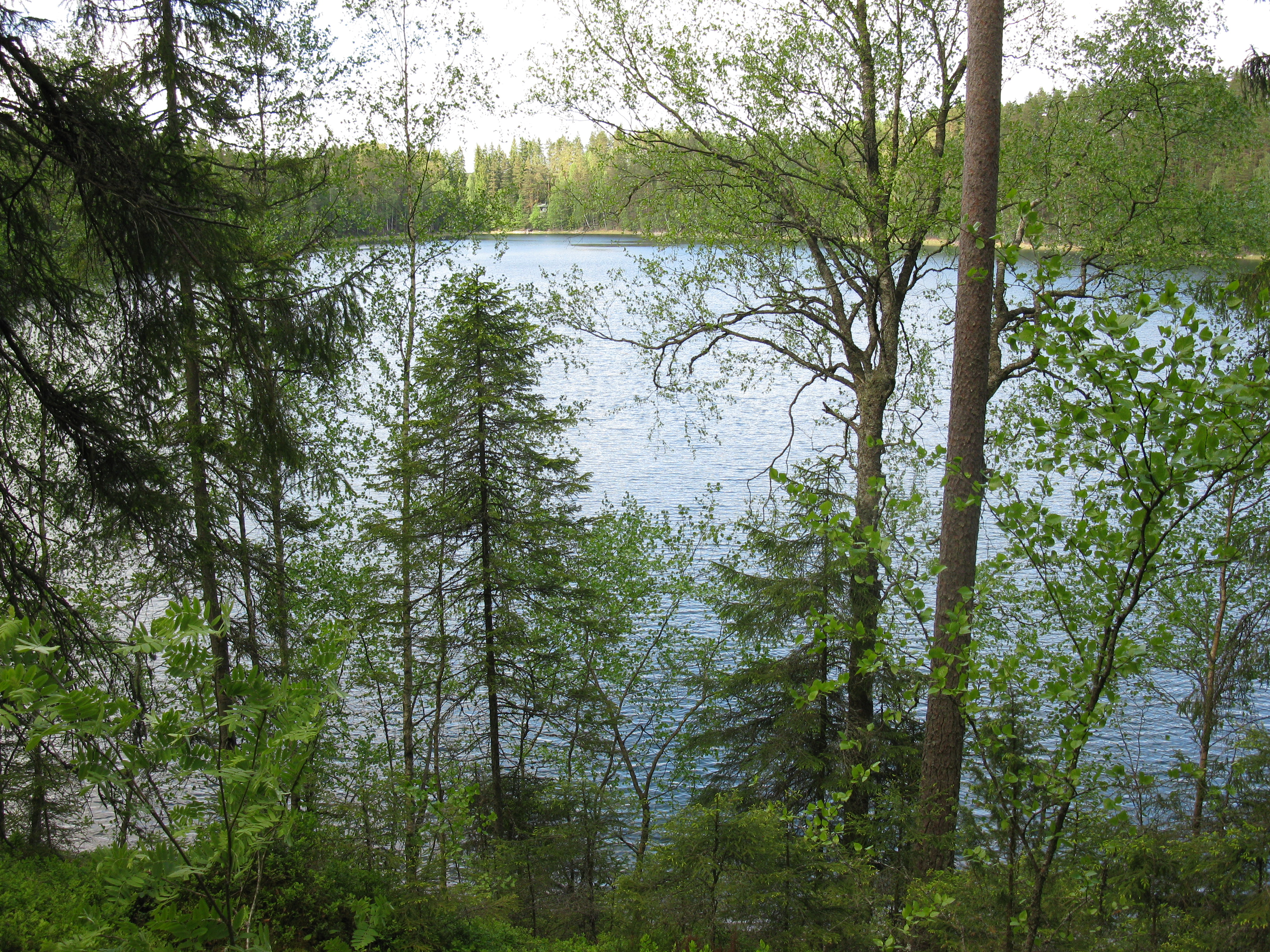 Lake Vähä-Pitkusta in Somero, Finland, a meromictic lake.